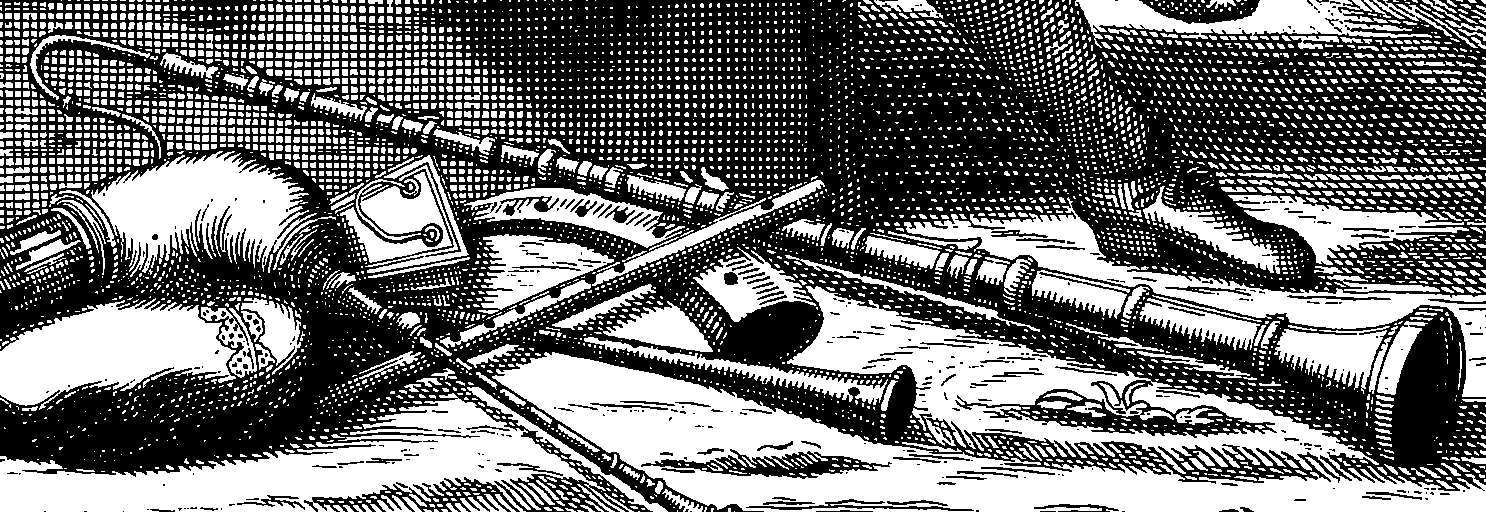 Cromorne (longest instrument on the picture), by Charles-Emmanuel Borjon de Scellery (1672).